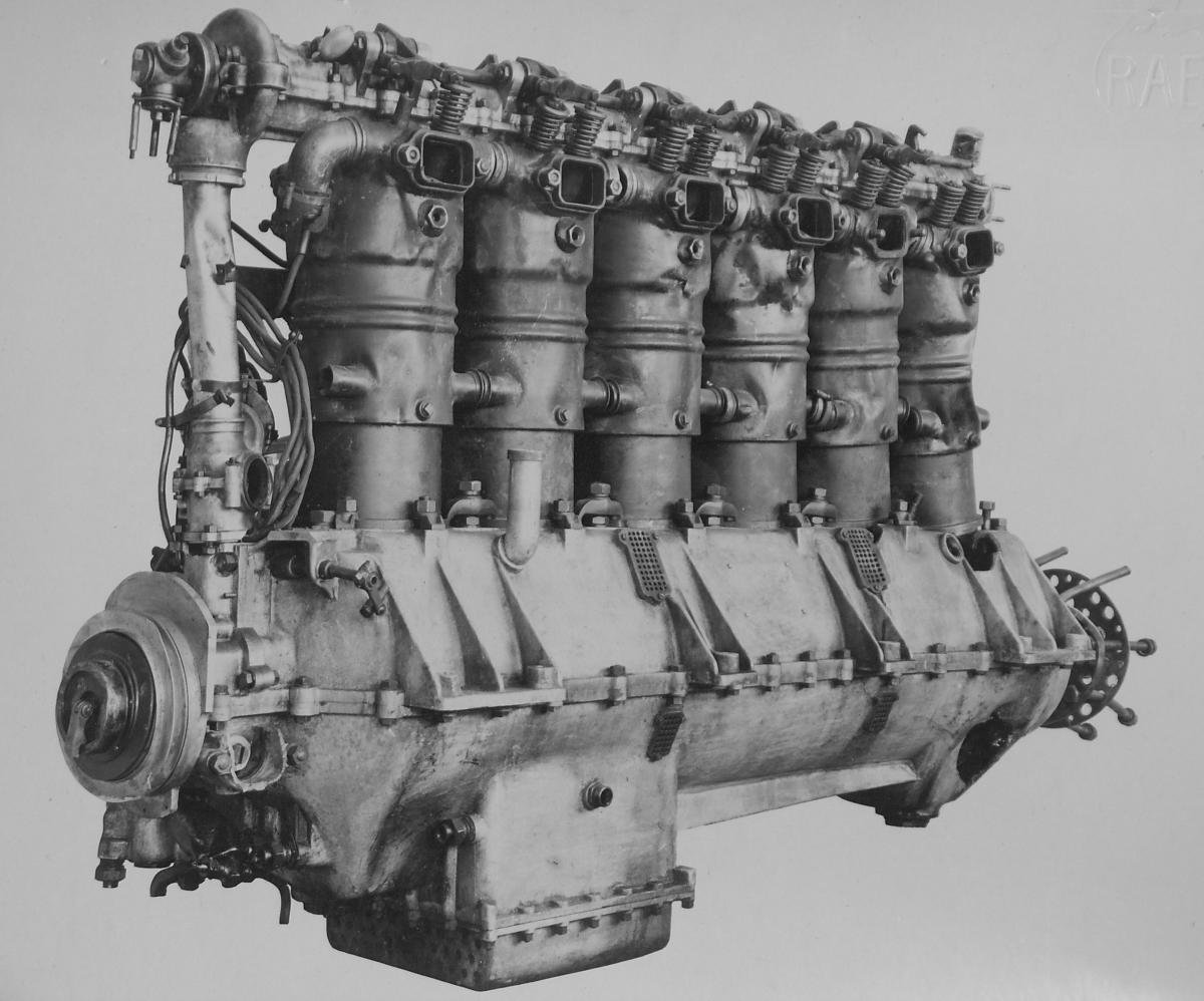 Basse & Selve BuS IV aircraft engine (German) from World War 1, exhaust side. This engine was captured from a downed Rumpler biplane and is heavily damaged.